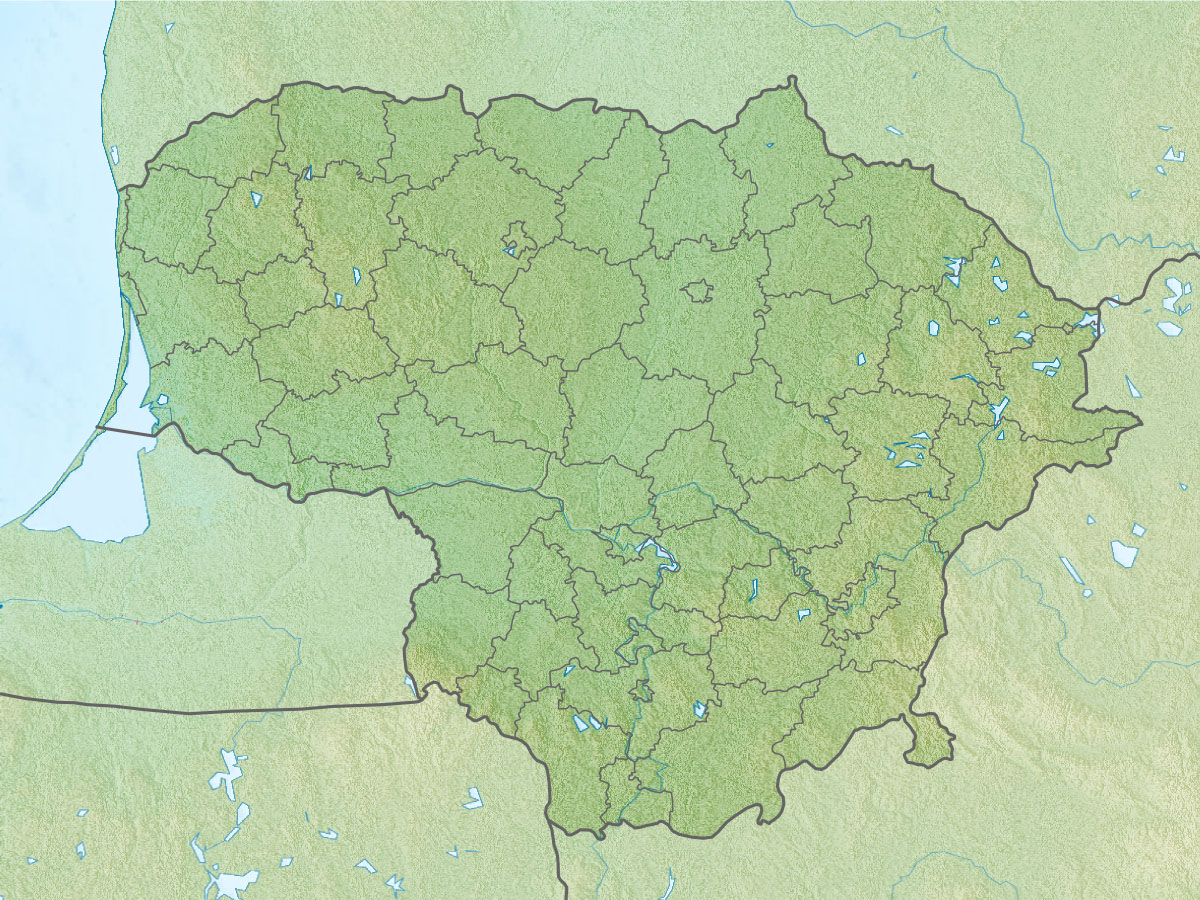 Location map of Lithuania Equirectangular projection, N/S stretching 170 %. Geographic limits of the map: N: 56.7° N S: 53.7° N W: 20.4° E E: 27.2° E